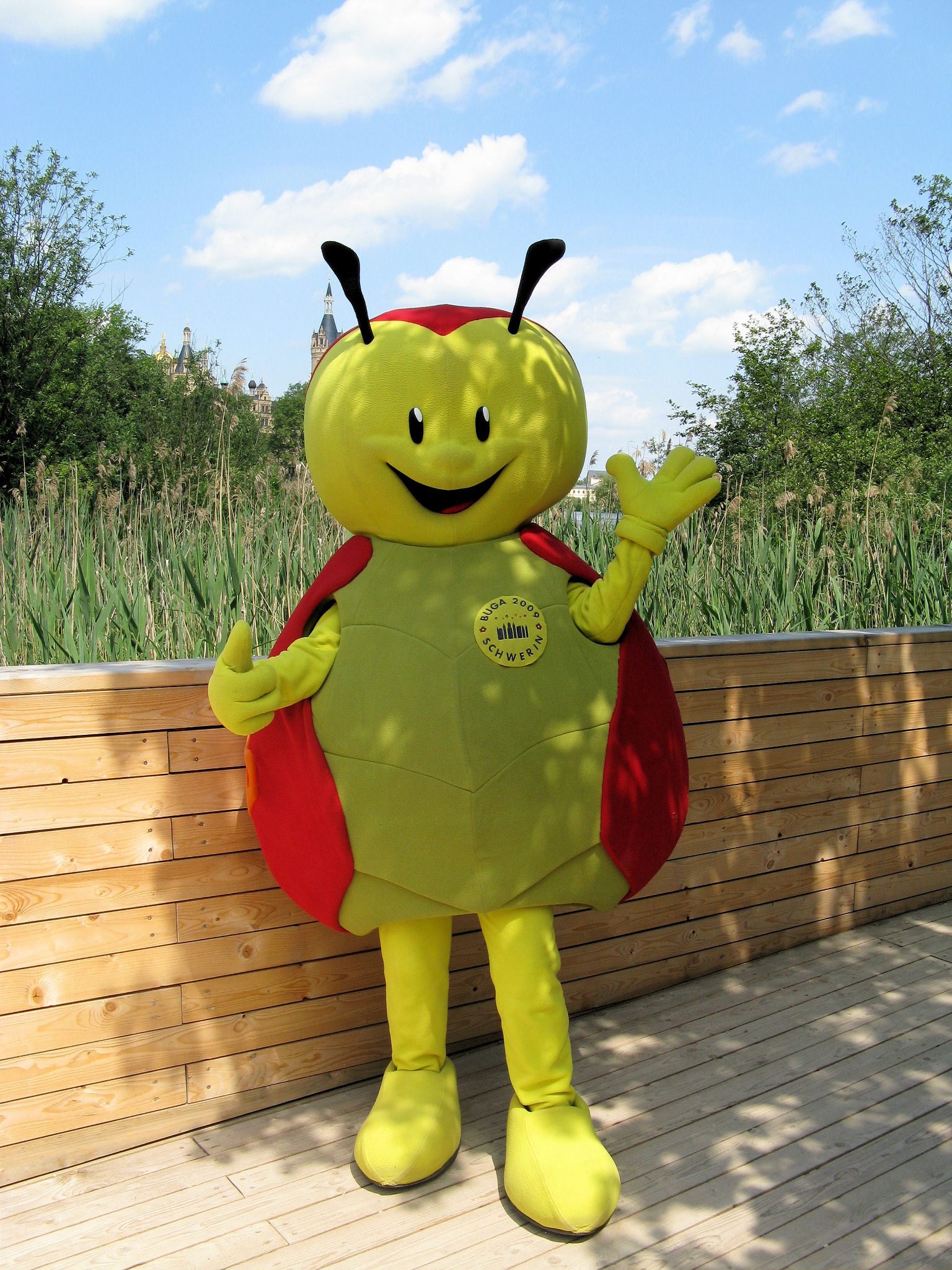 Mascot of Bundesgartenschau 2009 Fiete in Schwerin, Mecklenburg-Vorpommern, Germany